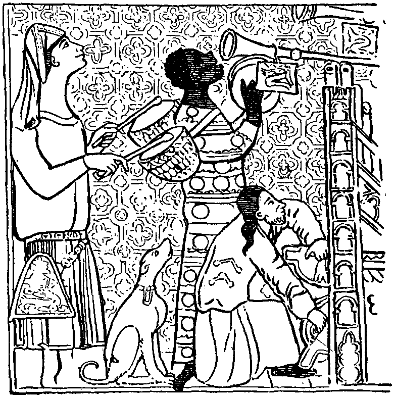 A medieval drawing from the British Museum featuring kettledrums.